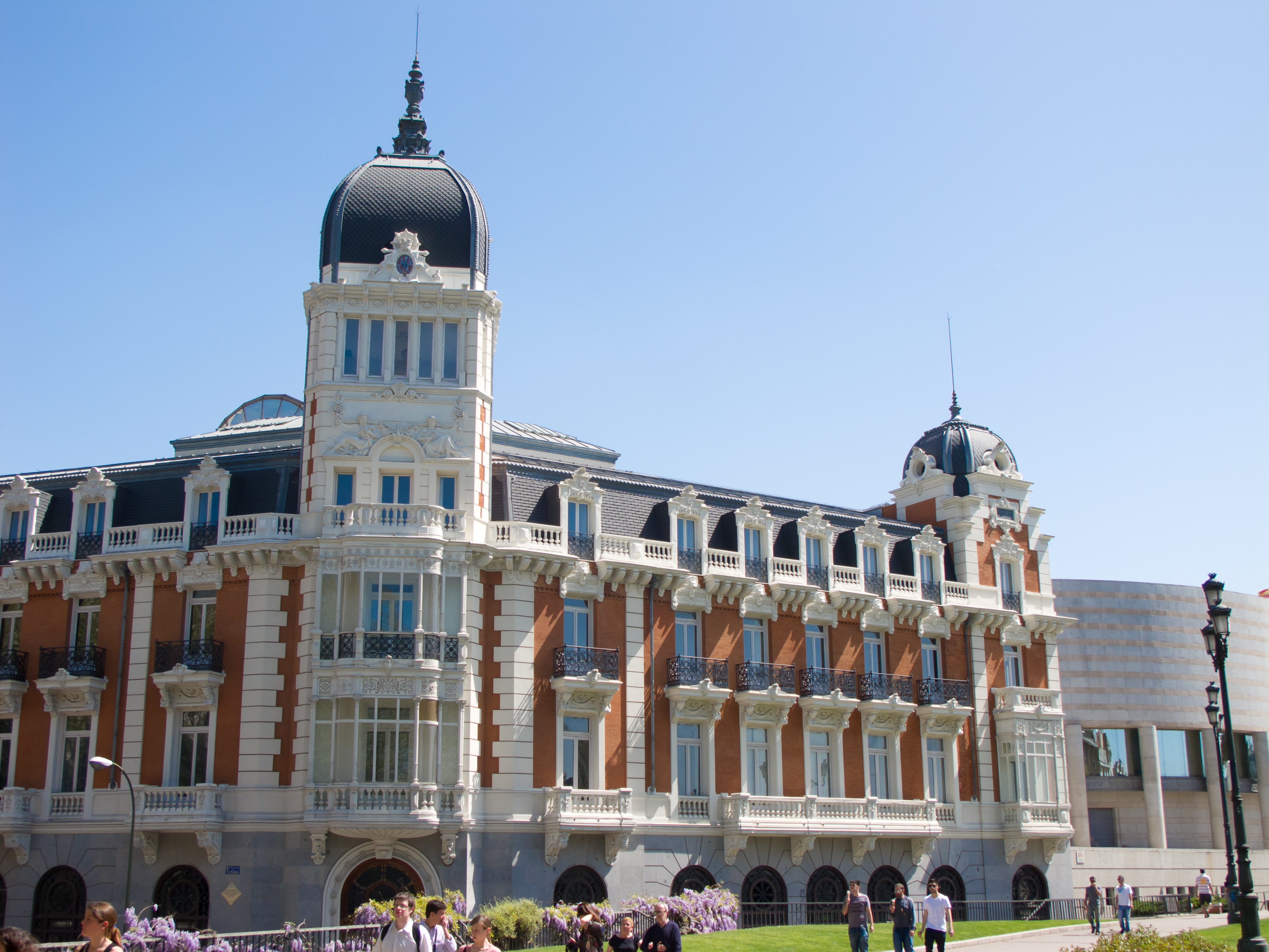 Real Compañía Asturiana de Minas, Madrid, Spain.